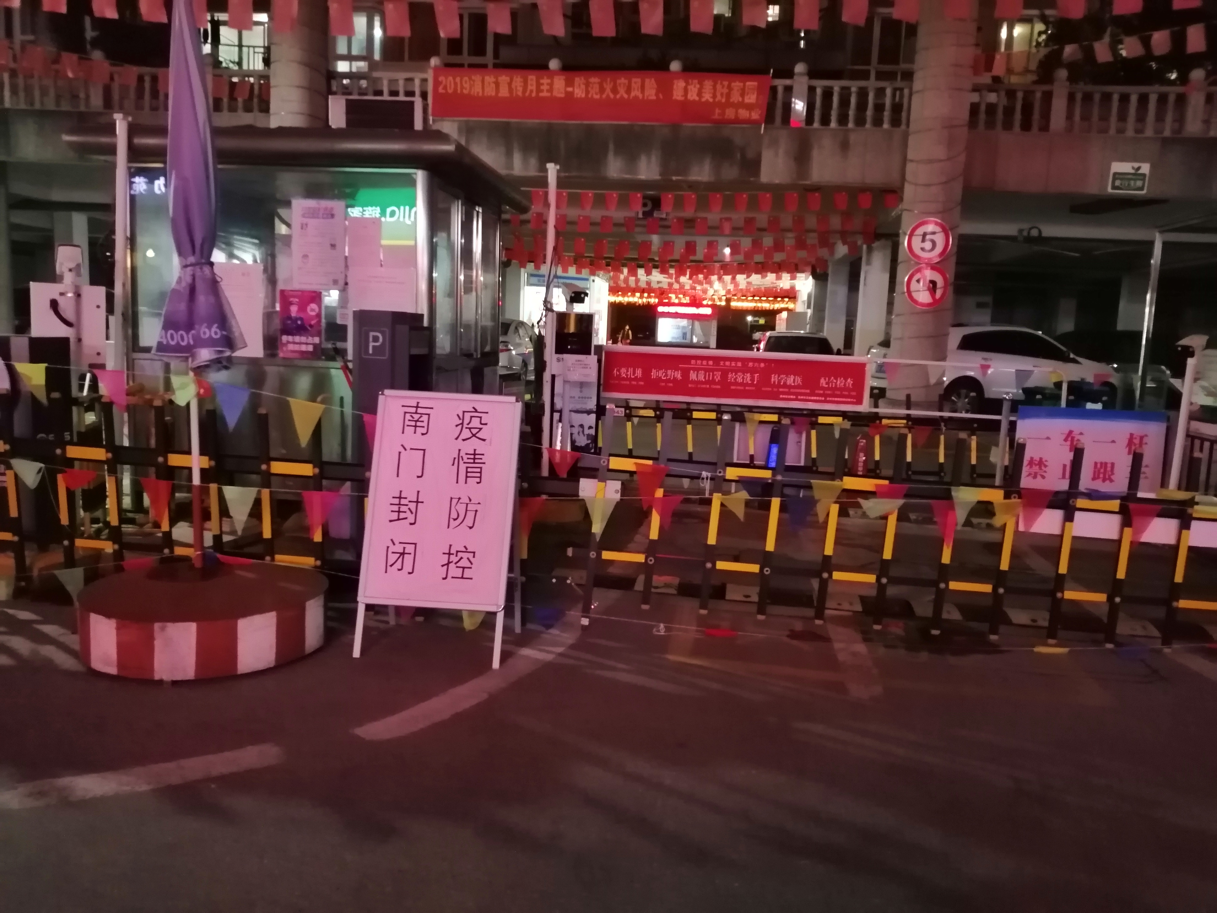 During the COVID-19 outbreak, all residential areas are under closed management in Suzhou. Here is a gate of one residential area, located in Suzhou Industrial Park, is closed due to outbreak controlling. 中文（中国大陆）: 2019新冠肺炎疫情期间，苏州各小区实行封闭式管理，部分小区出入口关闭。此图为苏州工业园区某小区的南门，由于疫情防控而暂时关闭。